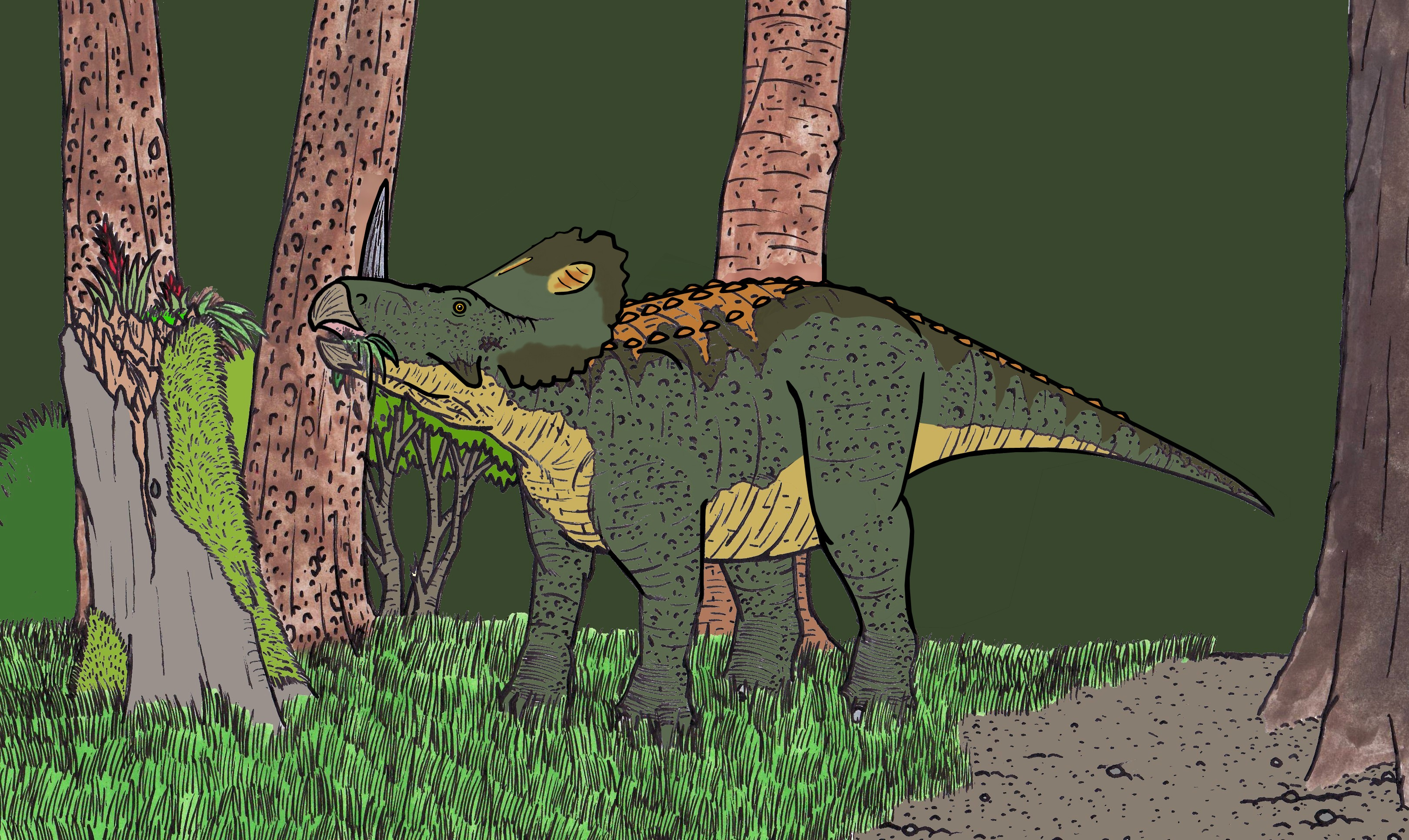 Illustration of the ceratopsian dinosaur Monoclonius, feeding in a prehistoric forest.